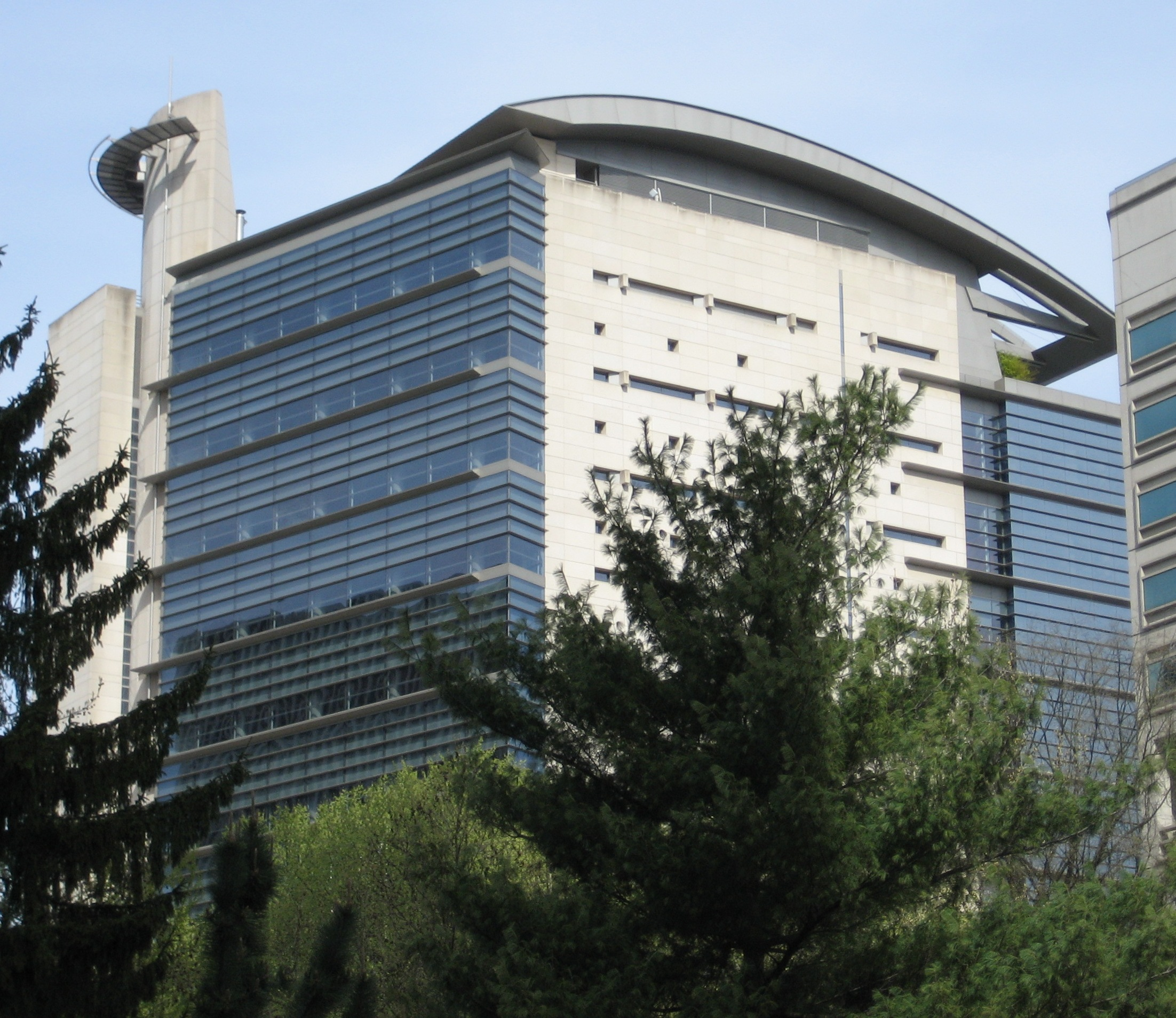 Mark O. Hatfield United States Courthouse in Portland